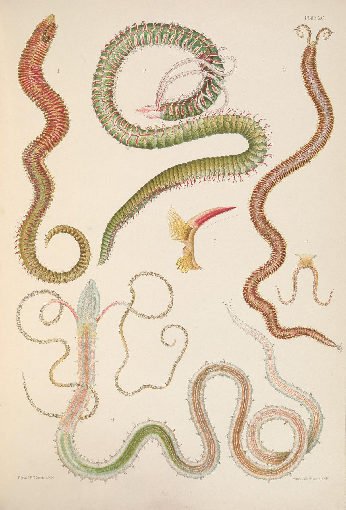 A monograph of the British marine annelids 1915 XC Plate text *1 Nerine foliosa =Scolelepis foliosa (Audouin & Milne Edwards, 1833) 2 Nerine cirratulus = Scolelepis squamata (Müller, 1806) 3, 4, 5 Scolelepis vulgaris (Johnston, 1827) 6 Magelona papillicornis F. Müller, 1858